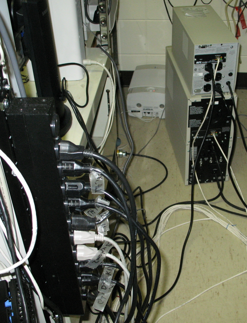 Example of an Uninterruptible Power Supply connected to a manufacturer-designed outlet expansion device known as a Power Distribution Unit, or PDU. This is a special high amperage power strip usually with a circuit breaker but without surge protection, designed for rackmount installation and connection to a suitably high-capacity UPS.In this image is a 10-outlet APC (American Power Conversion) PDU rated at 15 amps, mounted vertically on a server rack, and connected to an APC 2200 VA Smart-UPS (bottom unit shown to right).